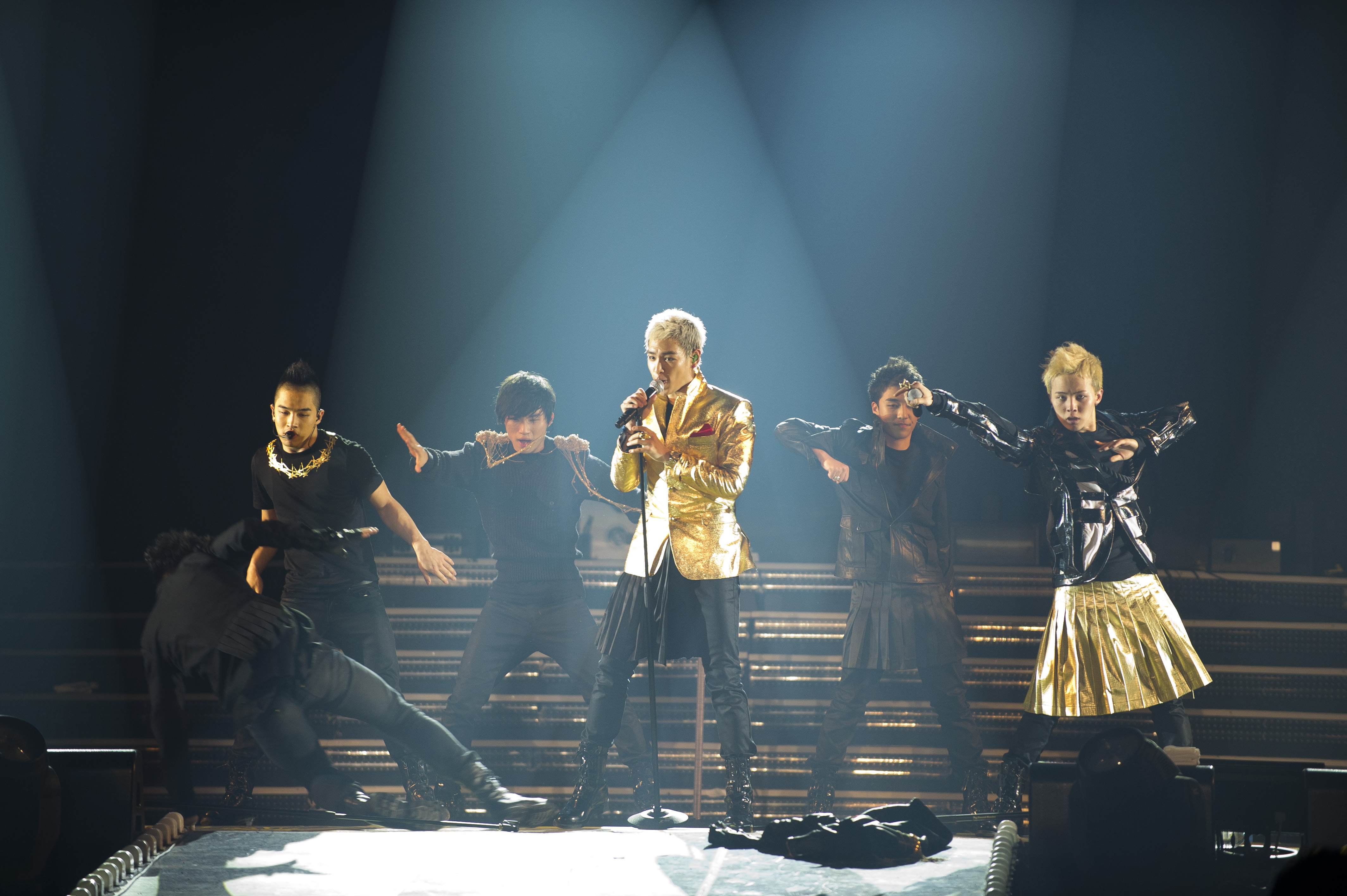 Hallyu, the Korean wave Hallyu refers to spread of Korean culture around the world. Big Bang, a Korean boy band who recently released another album has been promoting themselves not as Hallyu stars, but as artists.